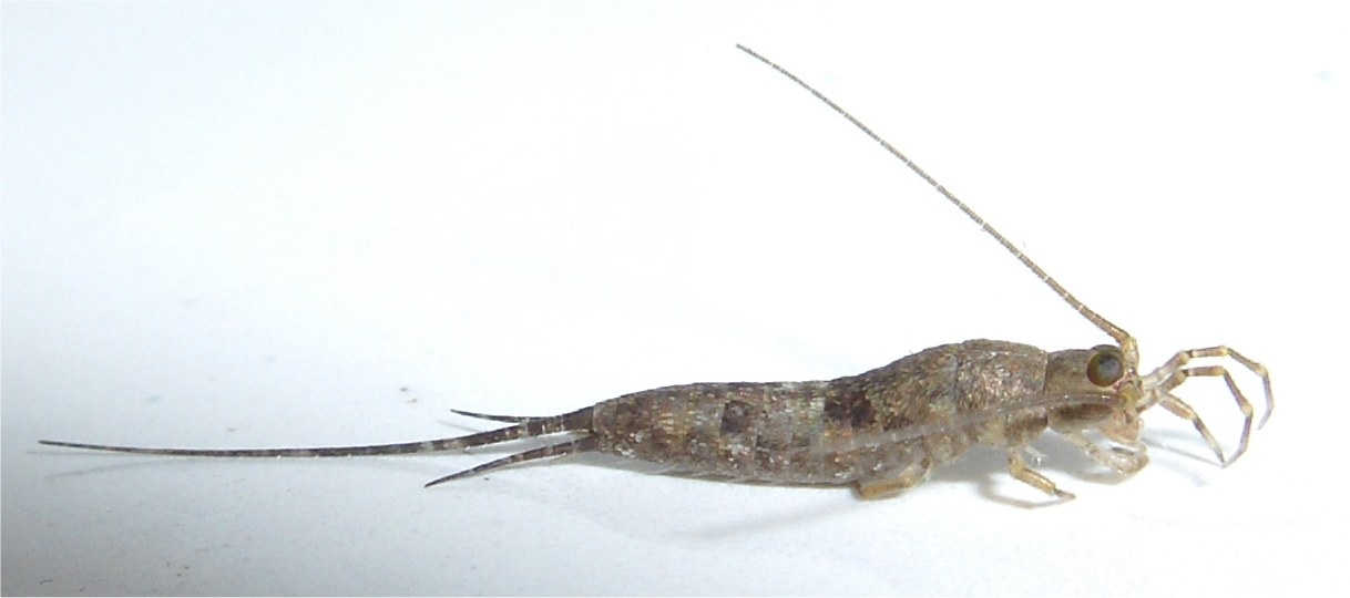 Archaeognatha: Machilidae, Petrobius sp., collected from Anglesey, UK